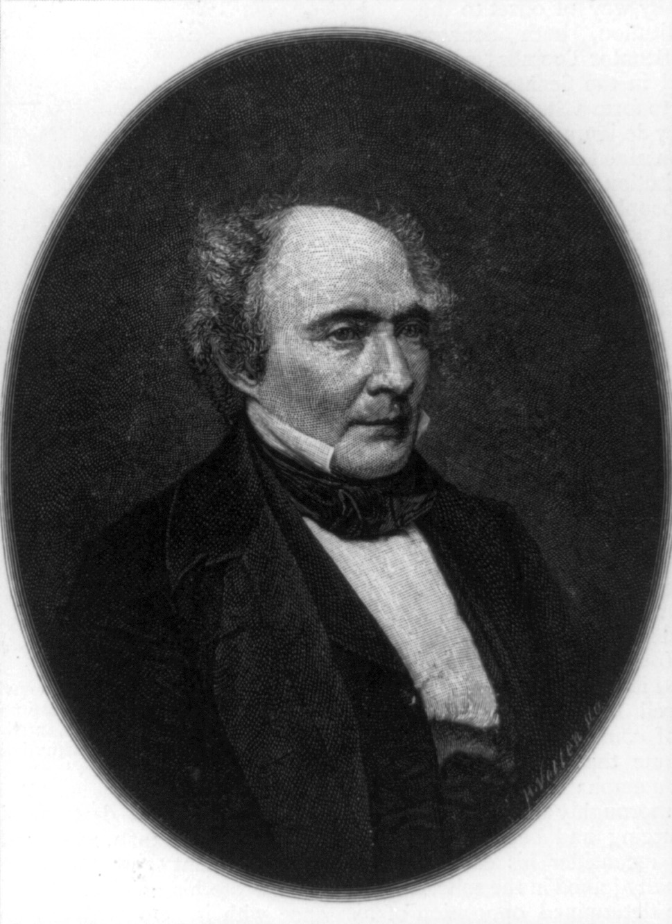 Robert J. Walker, U.S. Secretary of the Treasury. Illus. in: Century Magazine, 1887